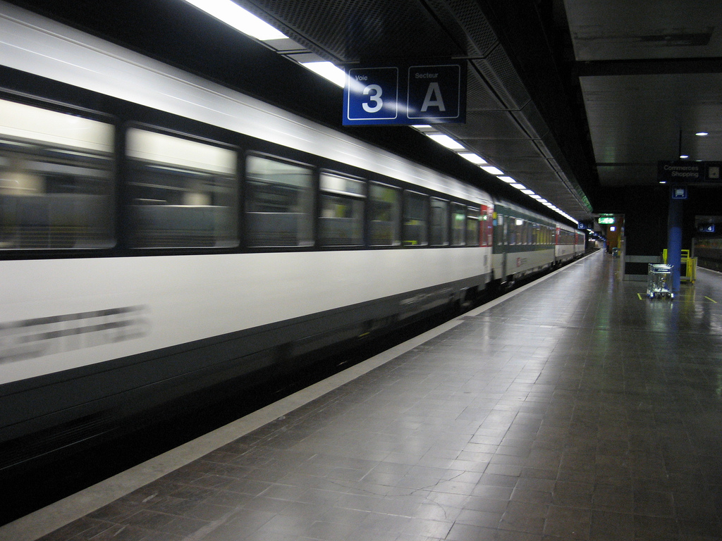 An Intercity train departing from Gare de Genève-Aéroport.